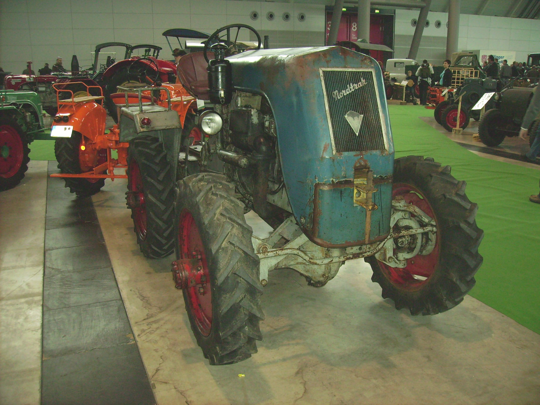 Nordtrak Stier 25, 25 HP, 1953